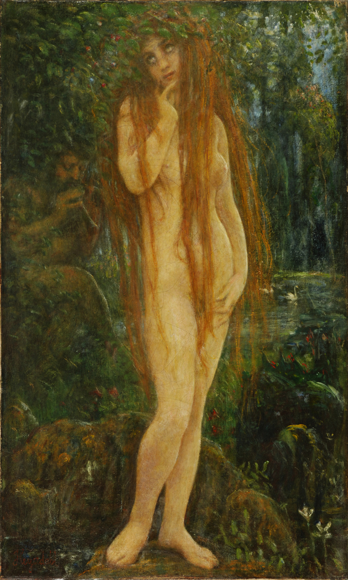 Nymphen